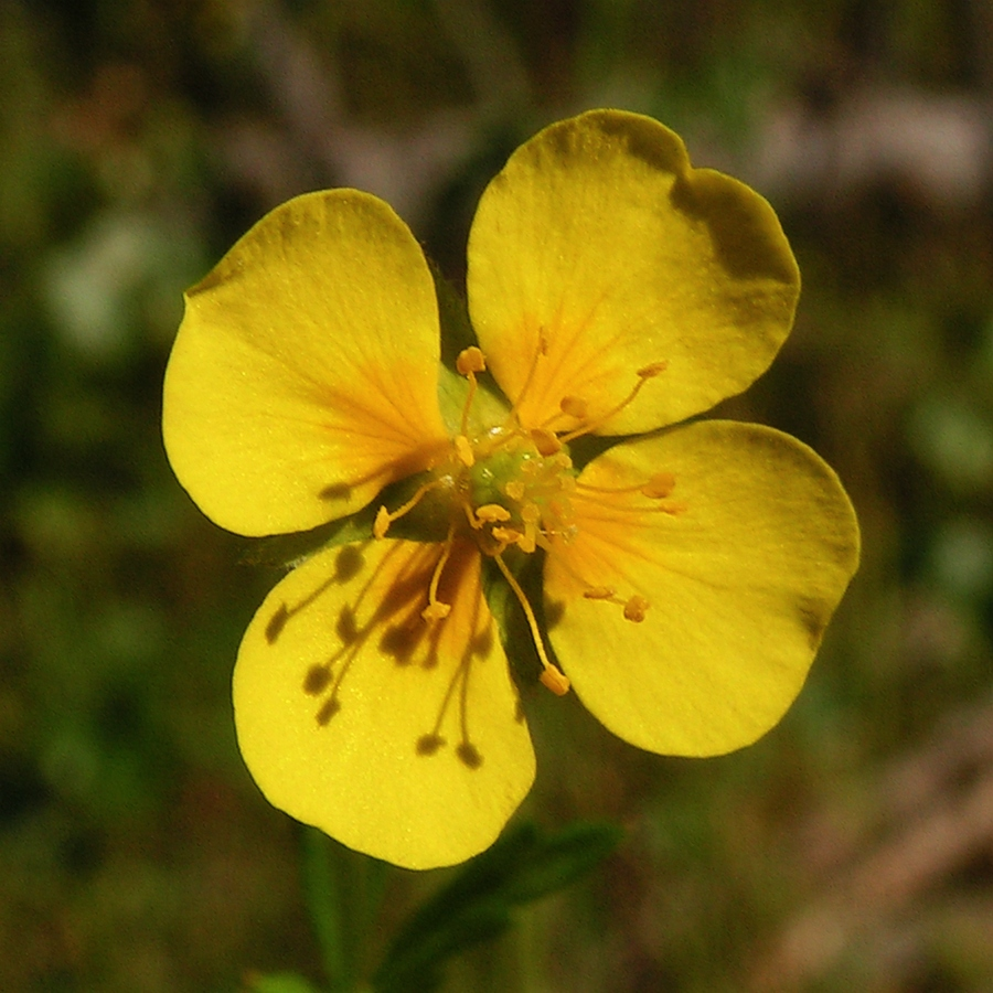 Flower of Common Tormentil. Moscow region, Russia.